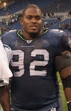 Seattle Seahawks defensive tackle Brandon Mebane posing for a picture after the game against the Philadelphia Eagles on November 2, 2008 at Qwest Field.